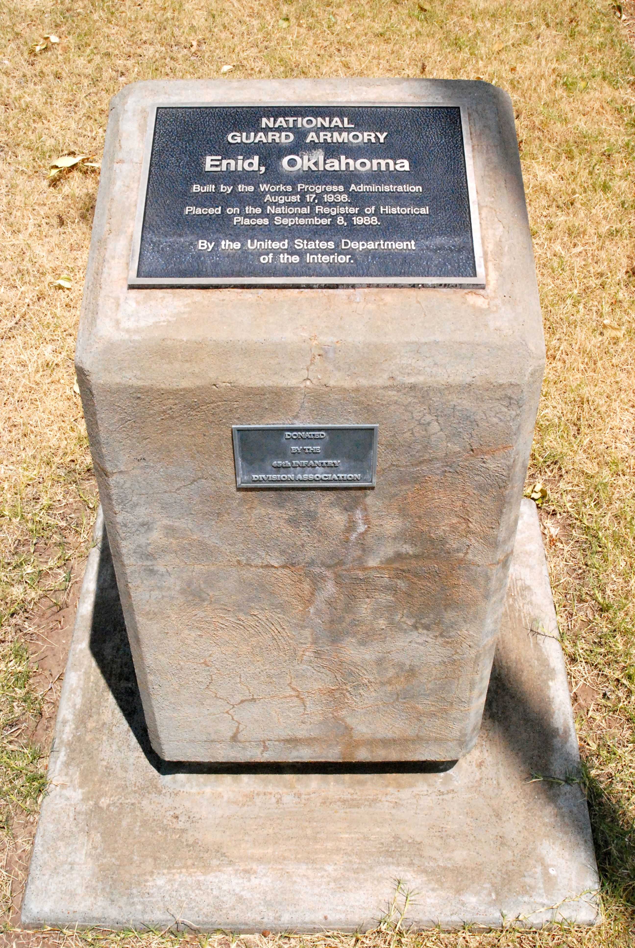 Historical Marker in front of Enid Armory, July 2011. Reads: National Guard Armory Enid, Oklahoma Built by the Works Progress Administration August 17, 1936. Placed on the National Register of Historial Places September 8, 1988. By the United States Department of the Interior. Donated by the 49th Infantry Division Association.